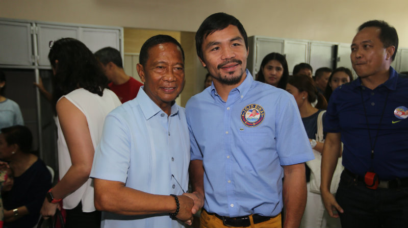 Sarangani Representative Manny Pacquiao with Vice President Jejomar Binay